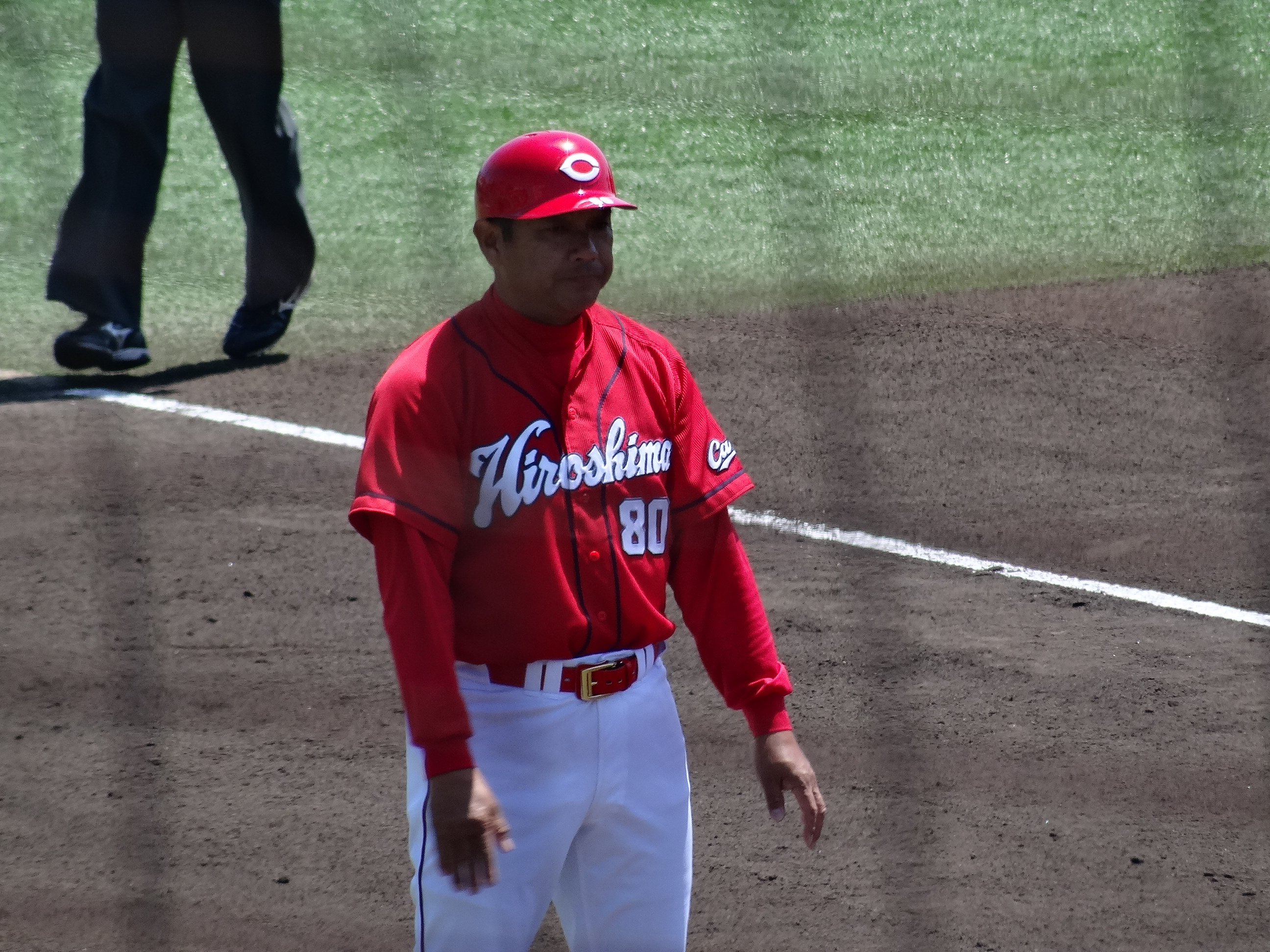 Kazutoshi Yamada, coach of the Hiroshima Toyo Carp, at Kobe Sports Park Sub Baseball Ground.